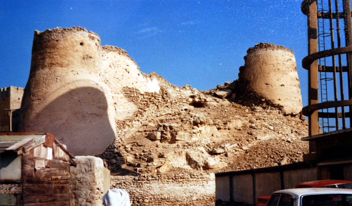 shows Tarout castle in 1978